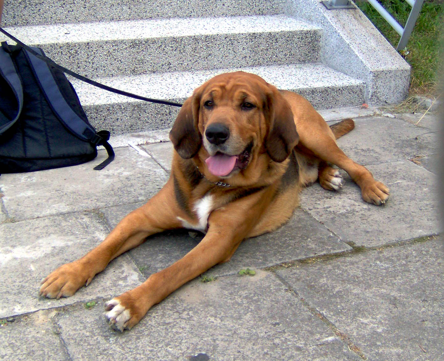 Photo of polish hound (ogar polski) UMER Ostoja Ogara taken by me on International Dogs Show in Kraków (25.06.2006)